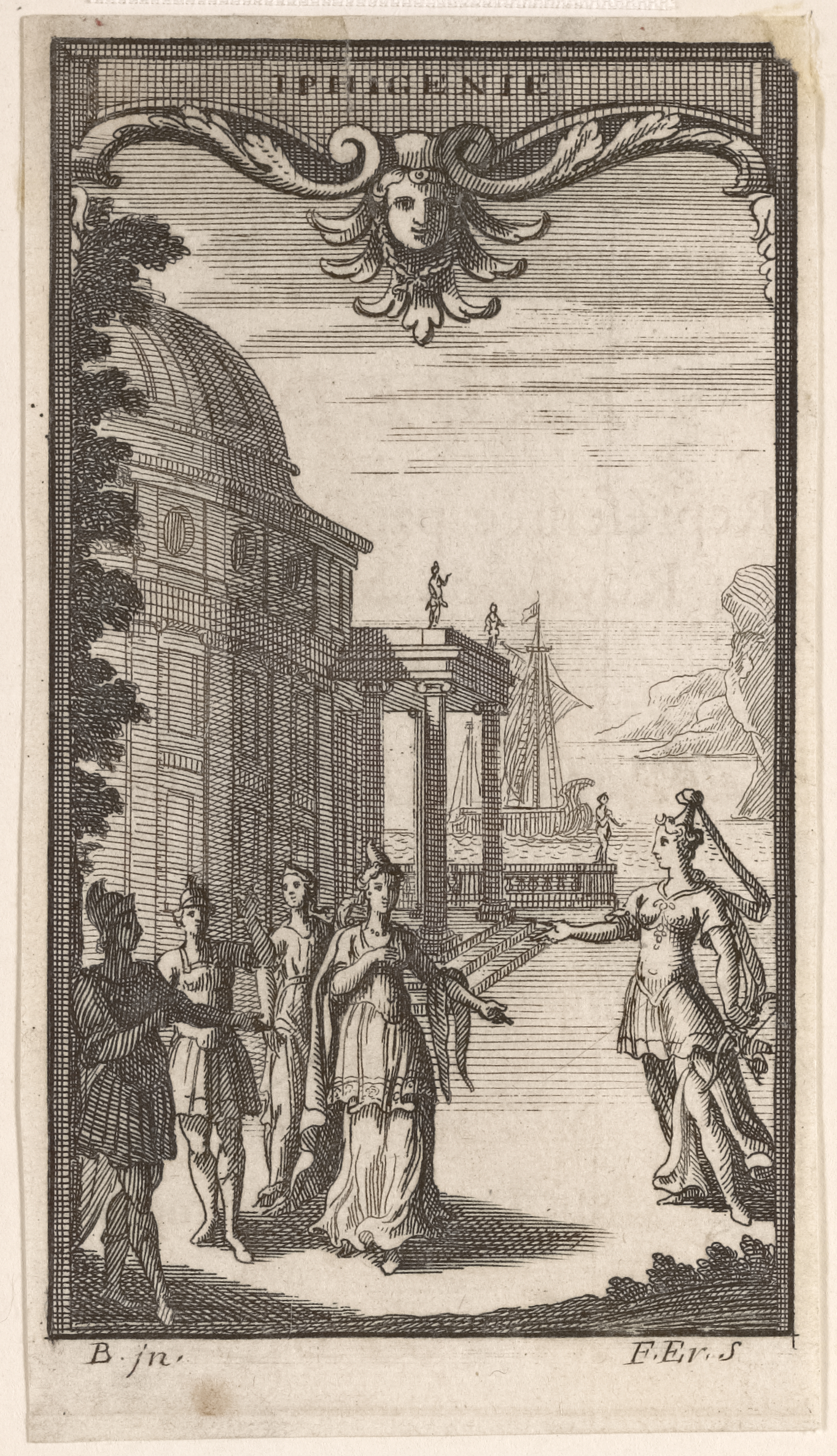 A scene from Henri Desmarest and André Campra's opera Iphigénie en Tauride, premiered at the Paris Opéra, May 6, 1704. Setting for Act III, depicting the palace of Thoas near the sea.